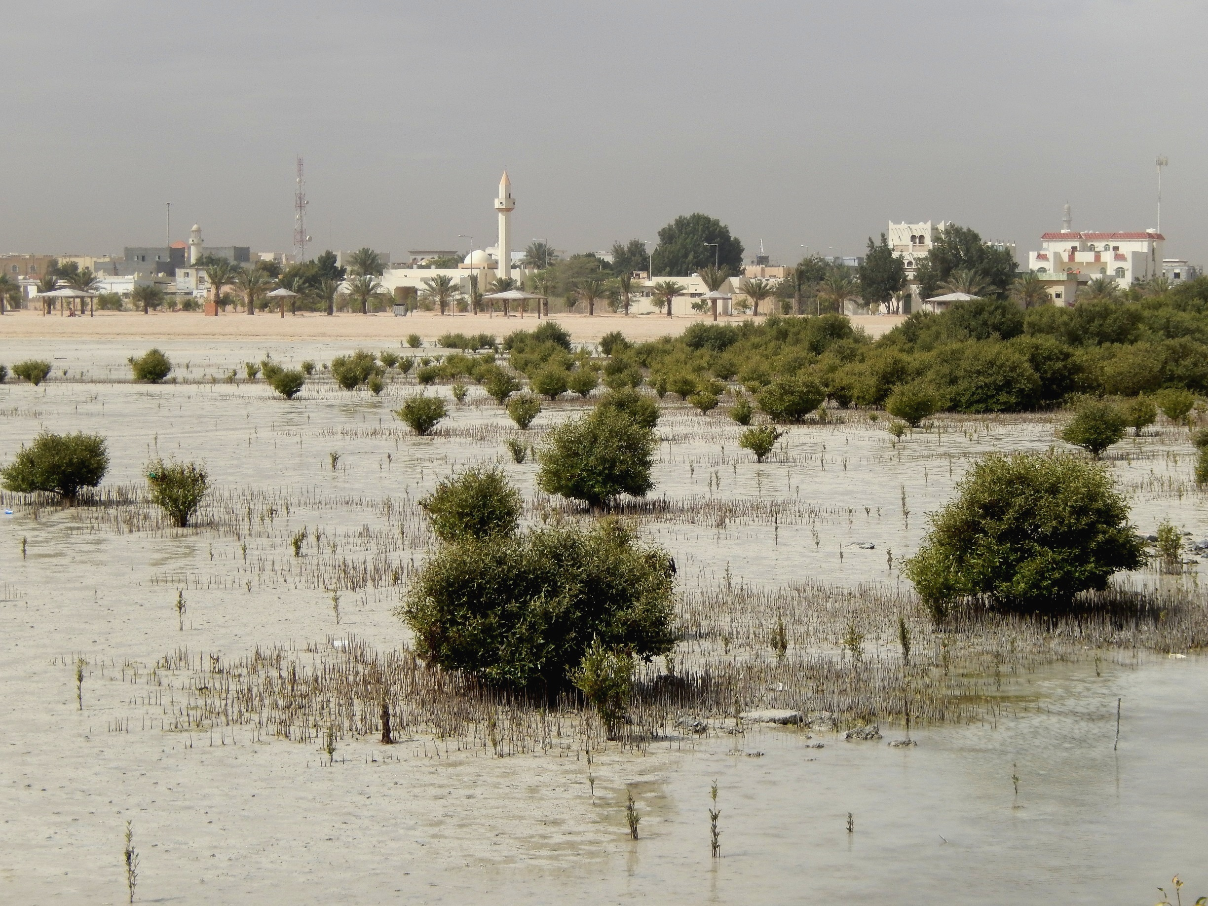 View over Simaisma and its coastline, with mangroves (Al Daayen municpality, eastern Qatar). The town's name is also spelled as Smaisma, Sumaismah or Sumaysimah.